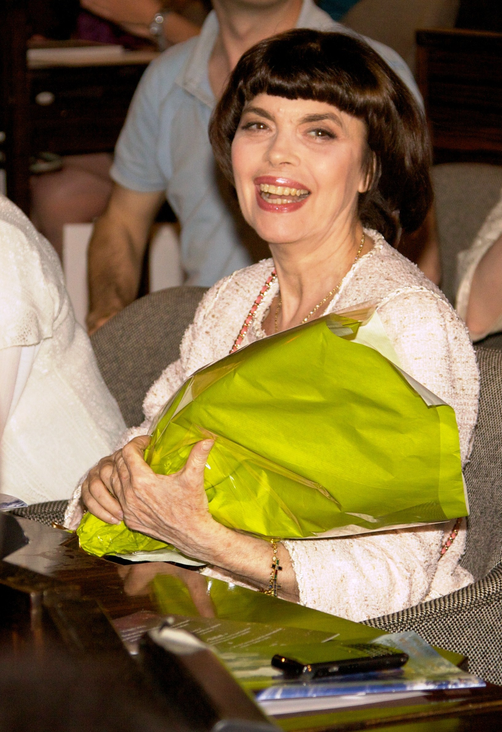 The French singer M.Matieu took part in the celebration of 50th Anniversary of Yury Gagarin space flight at UNESCO